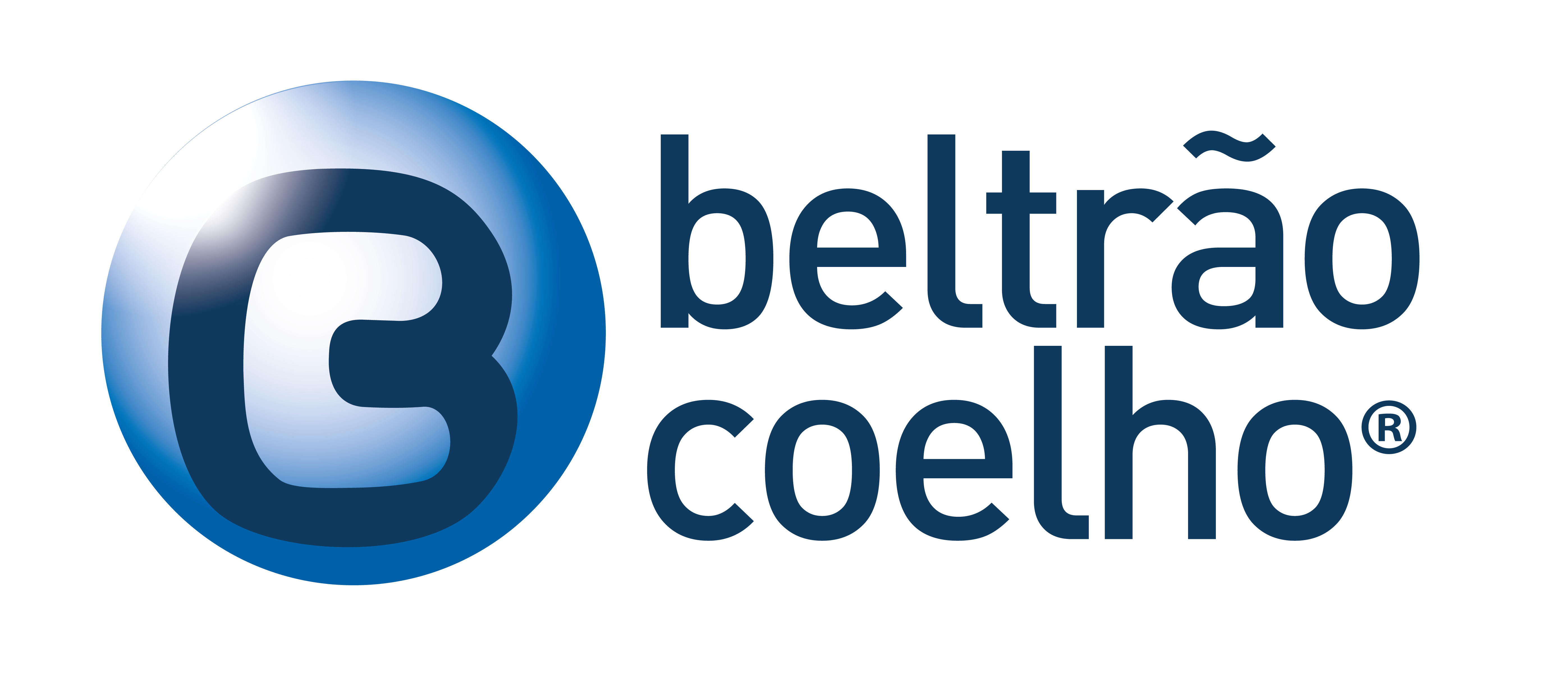 logo beltrão coelho